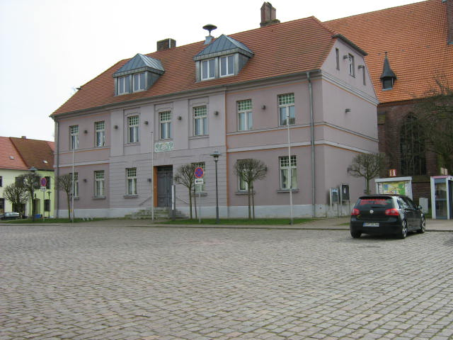 Rathaus in Usedom